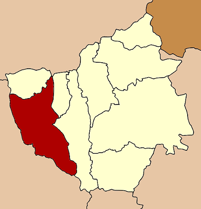 Map of Phayao province, Thailand, highlighting Amphoe Mueang Phayao.